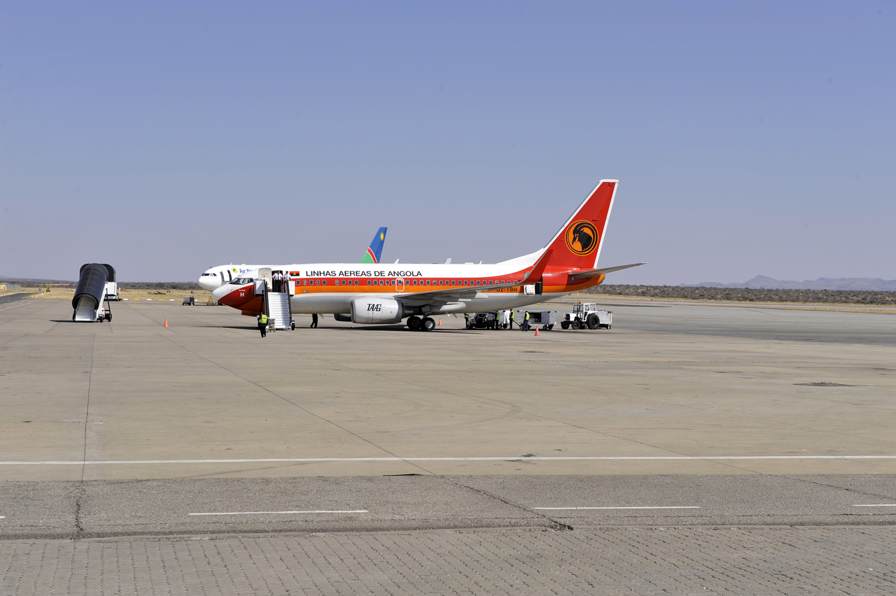 TAAG Angola Airlines (Linhas Aéreas de Angola) Boeing 737 (D2-TBH)